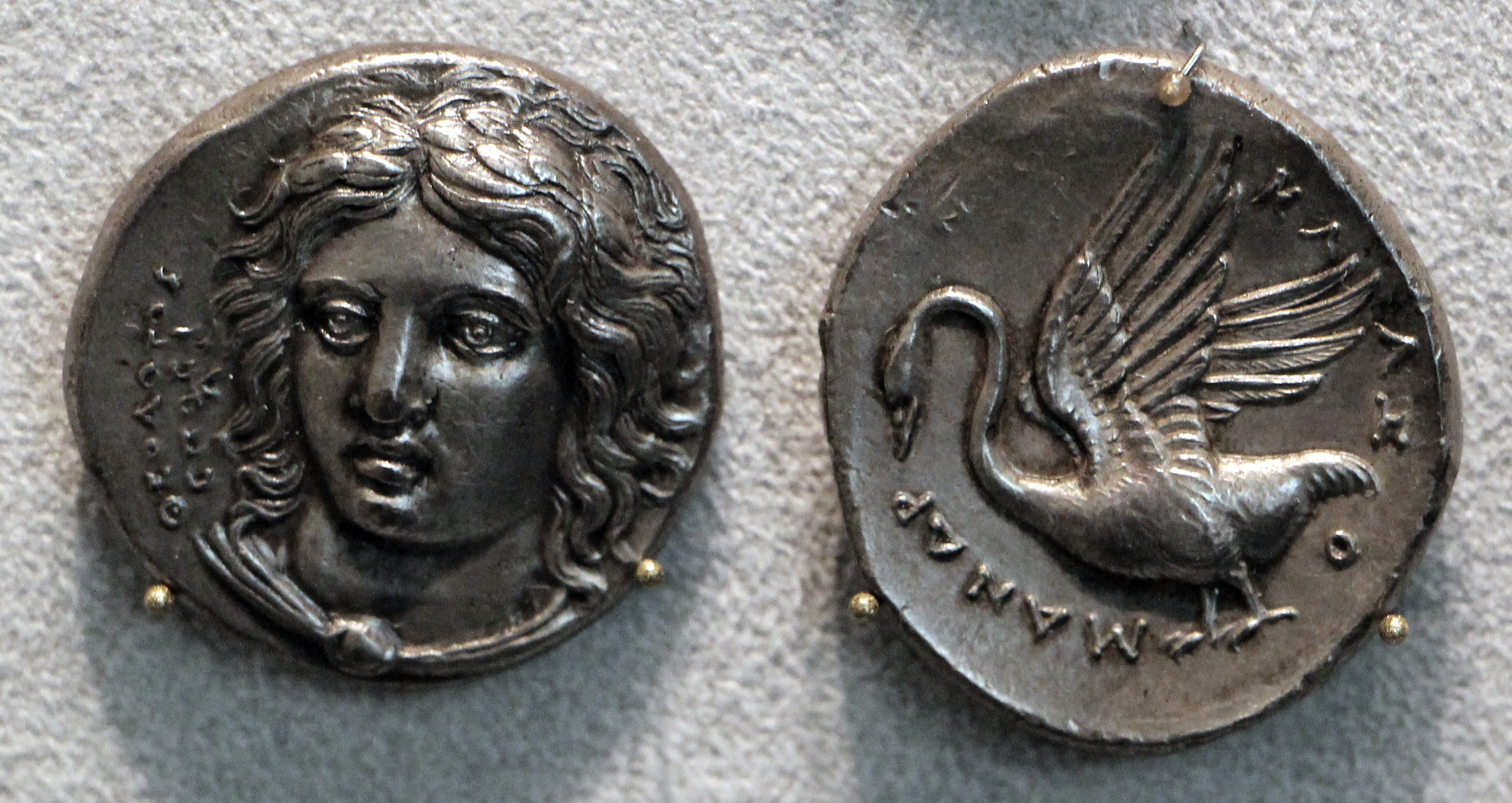 Ancient Greek coins in the Altes Museum Berlin